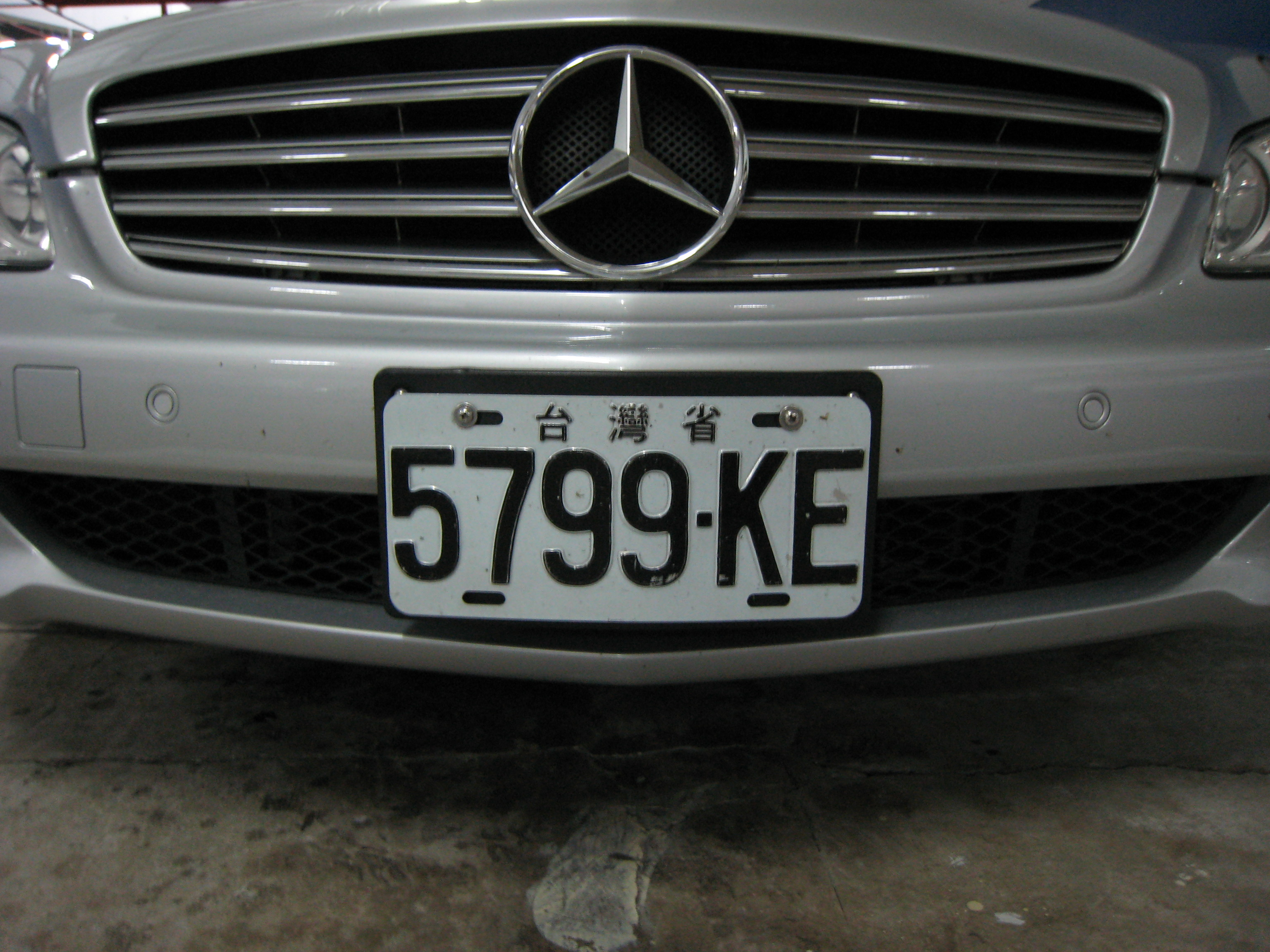 Taiwan Province license plate on a Mercedes-Benz.